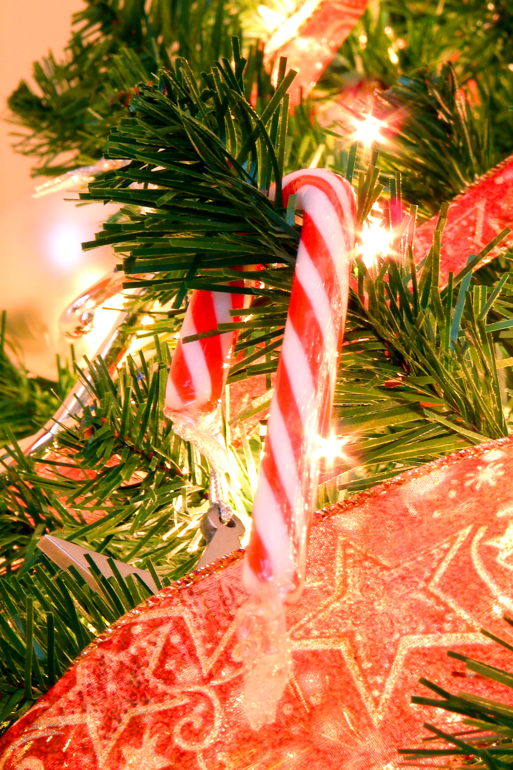 A candy cane hanging on a Christmas tree